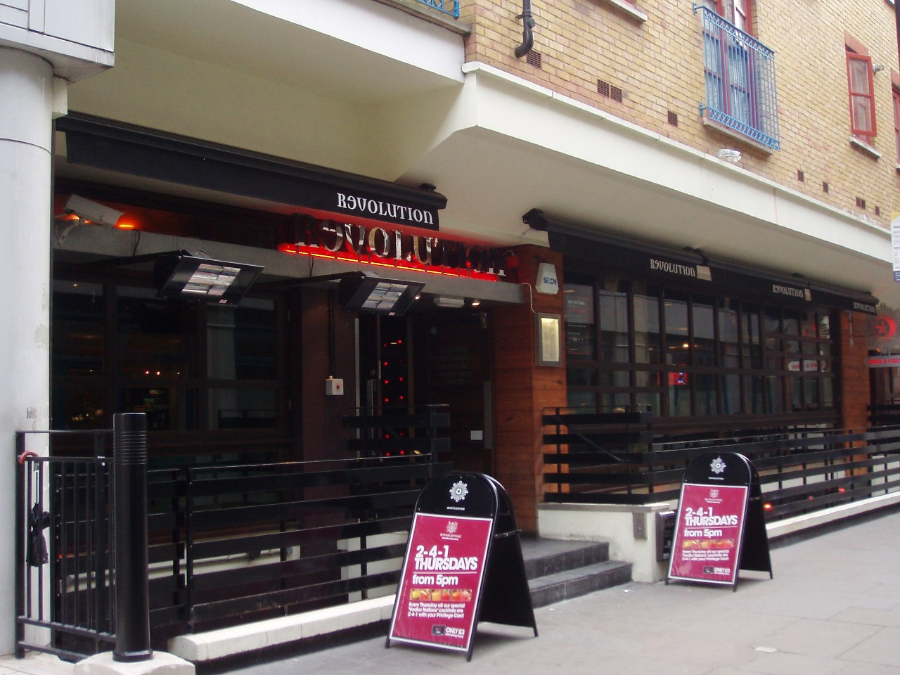 A chain of vodka bars, this one in Soho. Address: 2 St Annes Court. Owner: Revolution. Links: Beer in the Evening